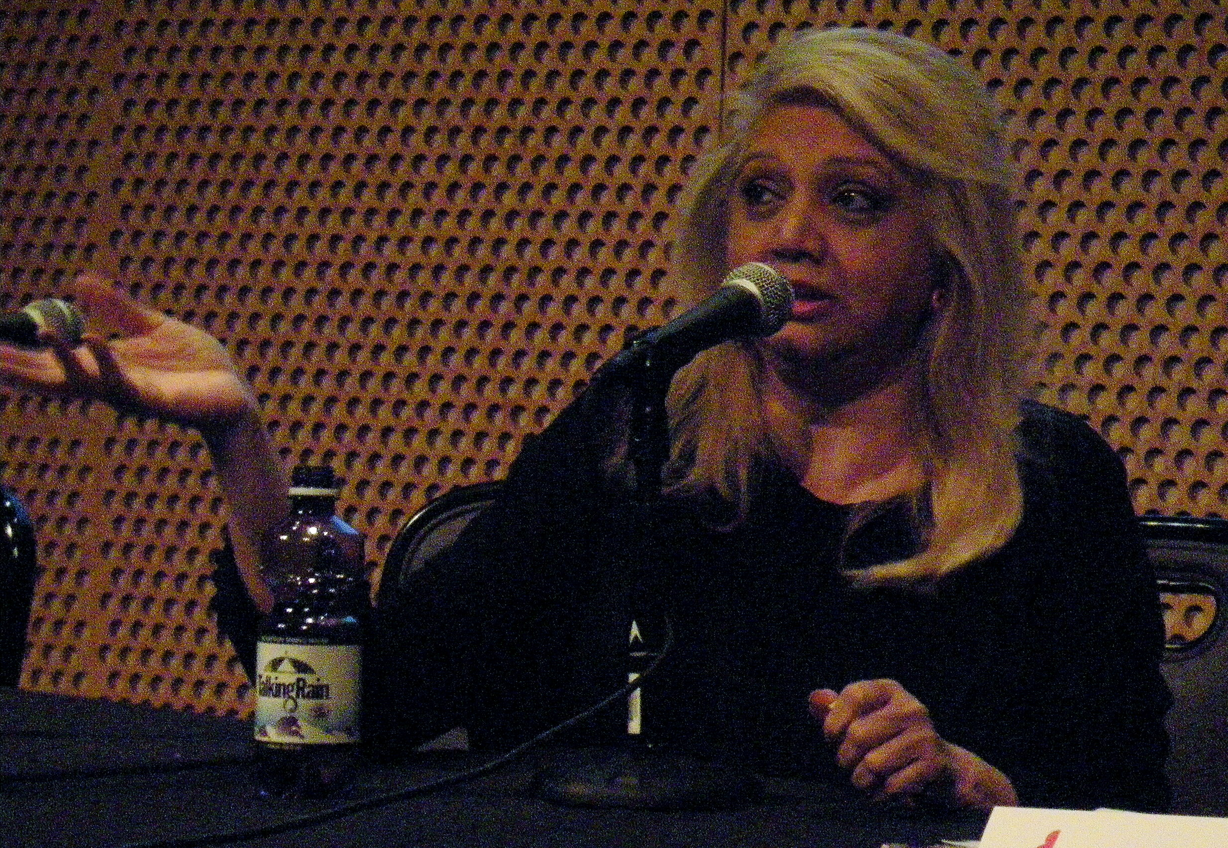 Asha Puthli at the 2009 Pop Conference, Experience Music Project, Seattle, Washington.